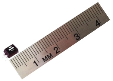 Miniature solid state relay, supplied by Solid State Optronics, with ruler for scale.